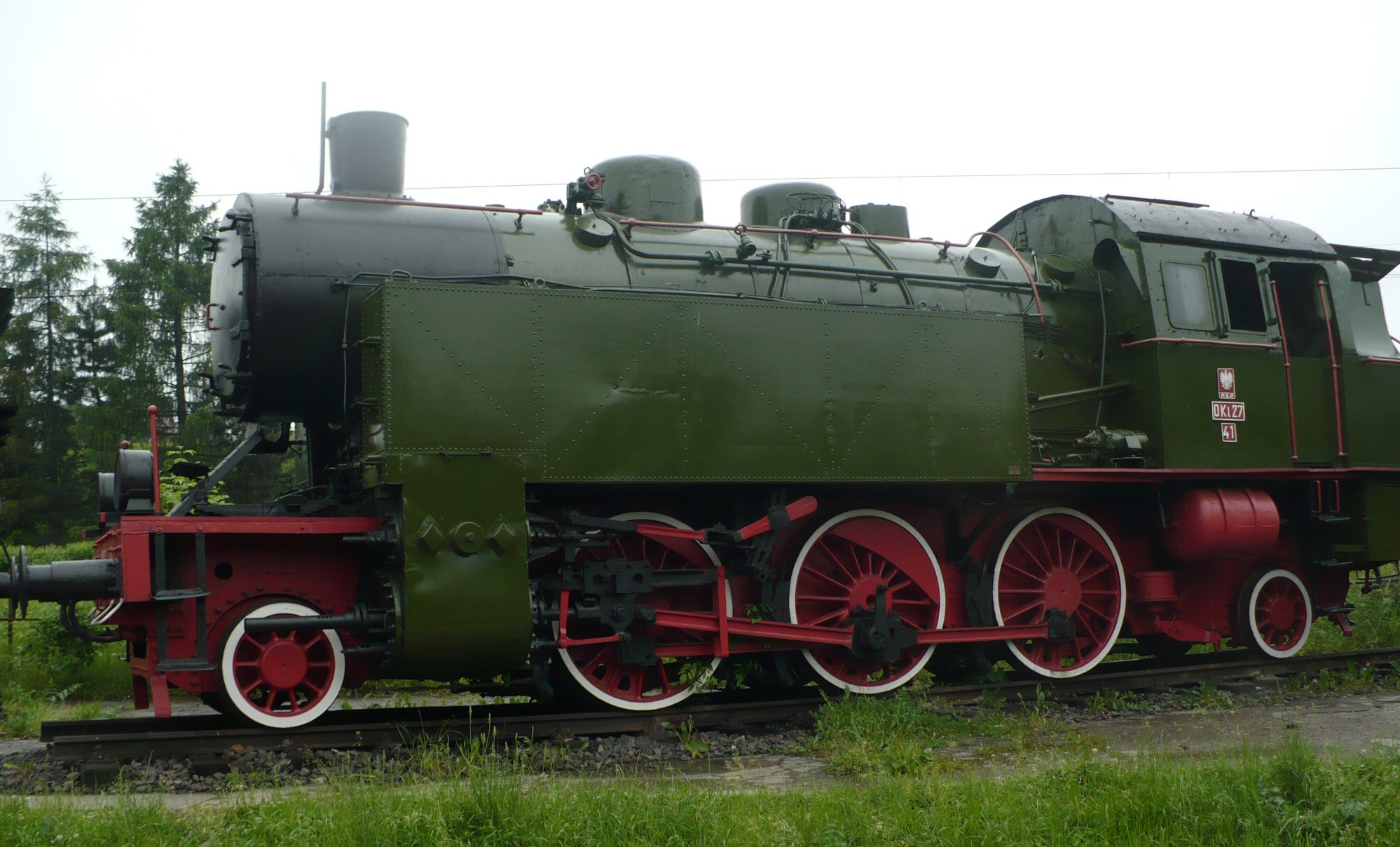 Tank locomotive OKl27-41